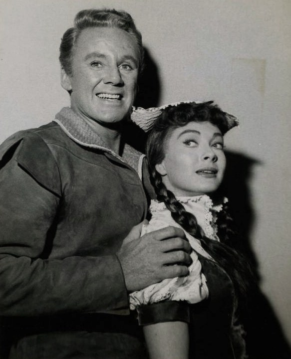 Van Johnson & Lori Nelson in the TV-film The Pied Piper of Hamelin - publicity still (cropped : see source)